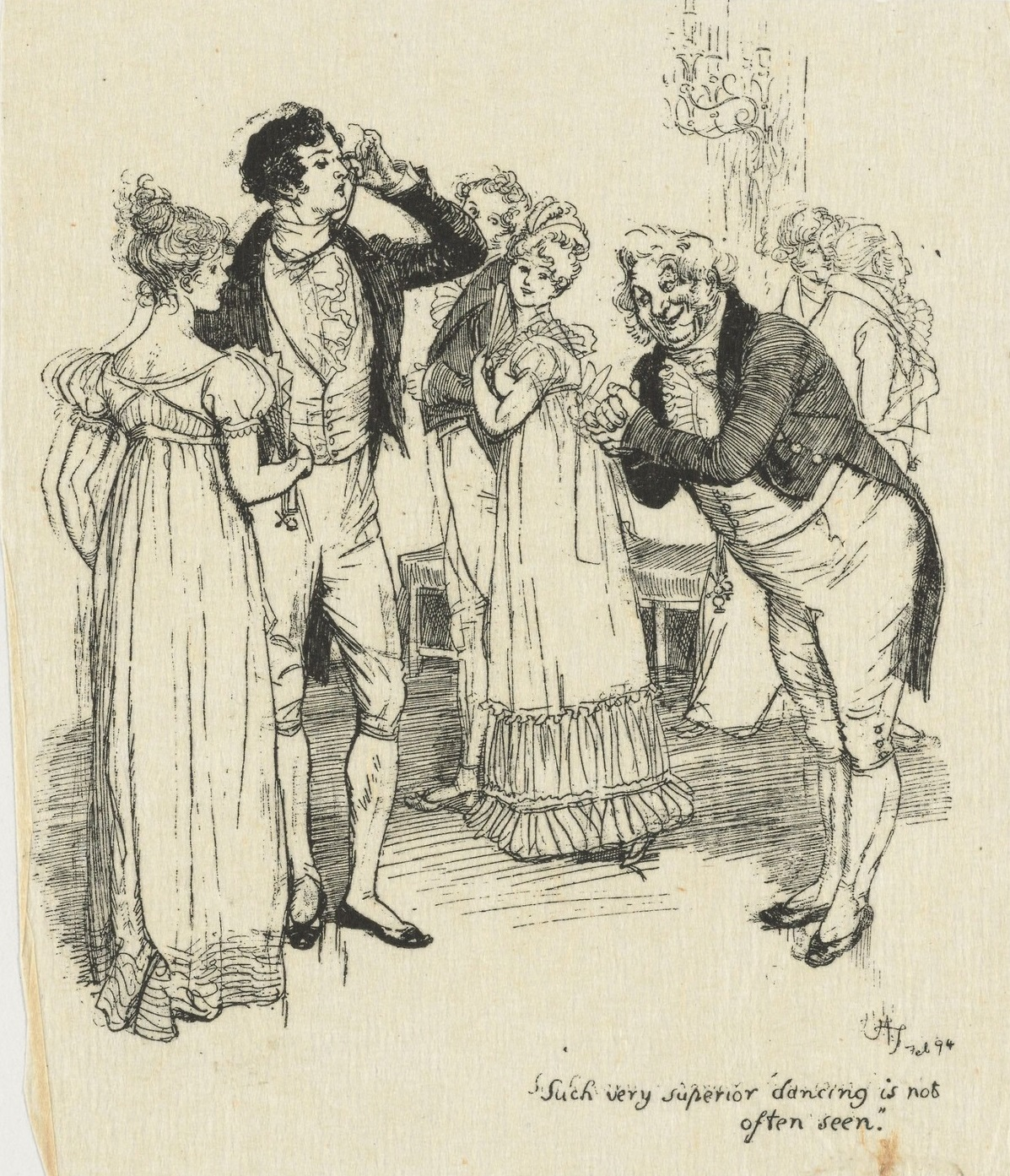 "Such very superior dancing is not often seen", original illustration by Hugh Thomson (1860-1920) for Pride and Prejudice by Jane Austen, 1894. Typ 805.94.8320, Houghton Library, Harvard University